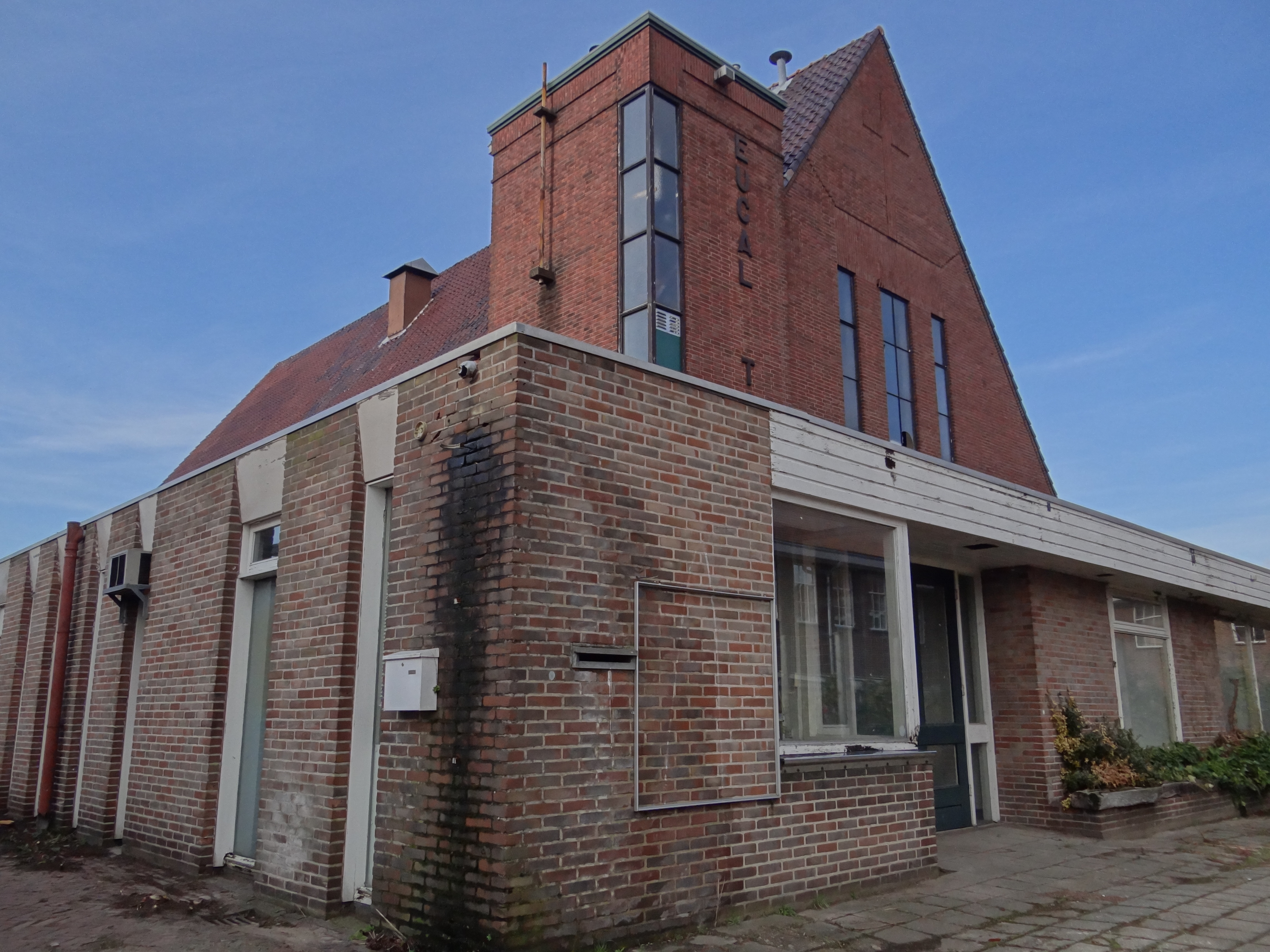 Eucalypta, Winterswijk